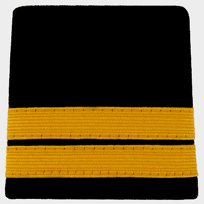 Distinktionsabzeichen der Schweizer Armee, hier Schulterklappe „Oberstleutnant“ (Br), OF4, Stabsoffizier.